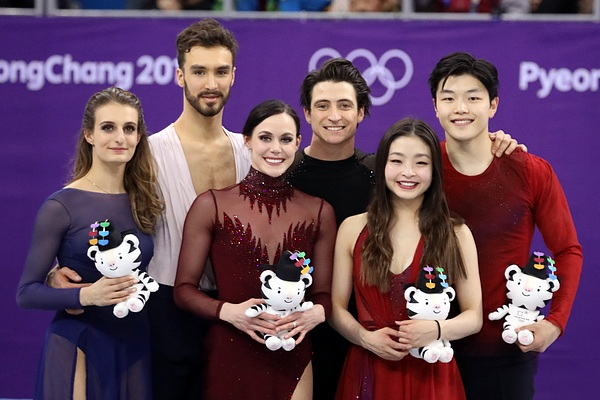 The dance podium at 2018 Winter Olympic Games From left Gabriella Papadakis/Guillaume Cizeron(2nd),Tessa Virtue/Scott Moir(1st),Maia Shibutani/Alex Shbutani(3rd).